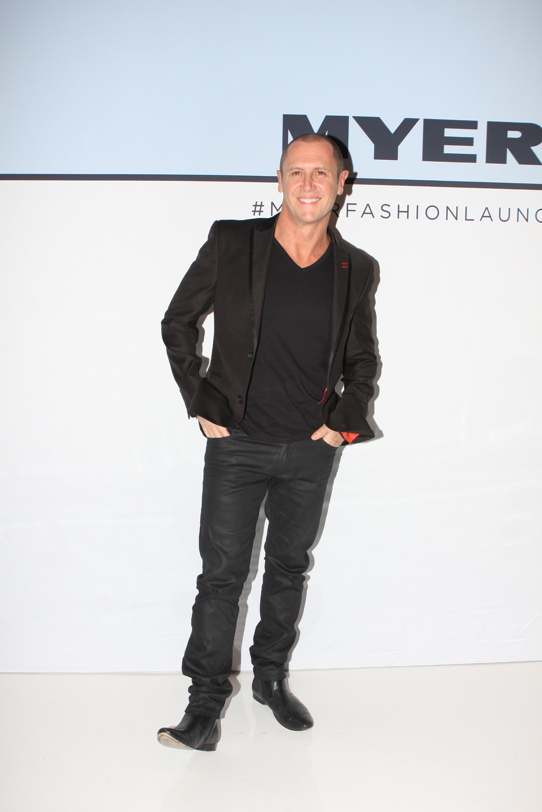 Larry Emdur at the Myer Fashion parade for the Spring/Summer 2015 Collection Launch